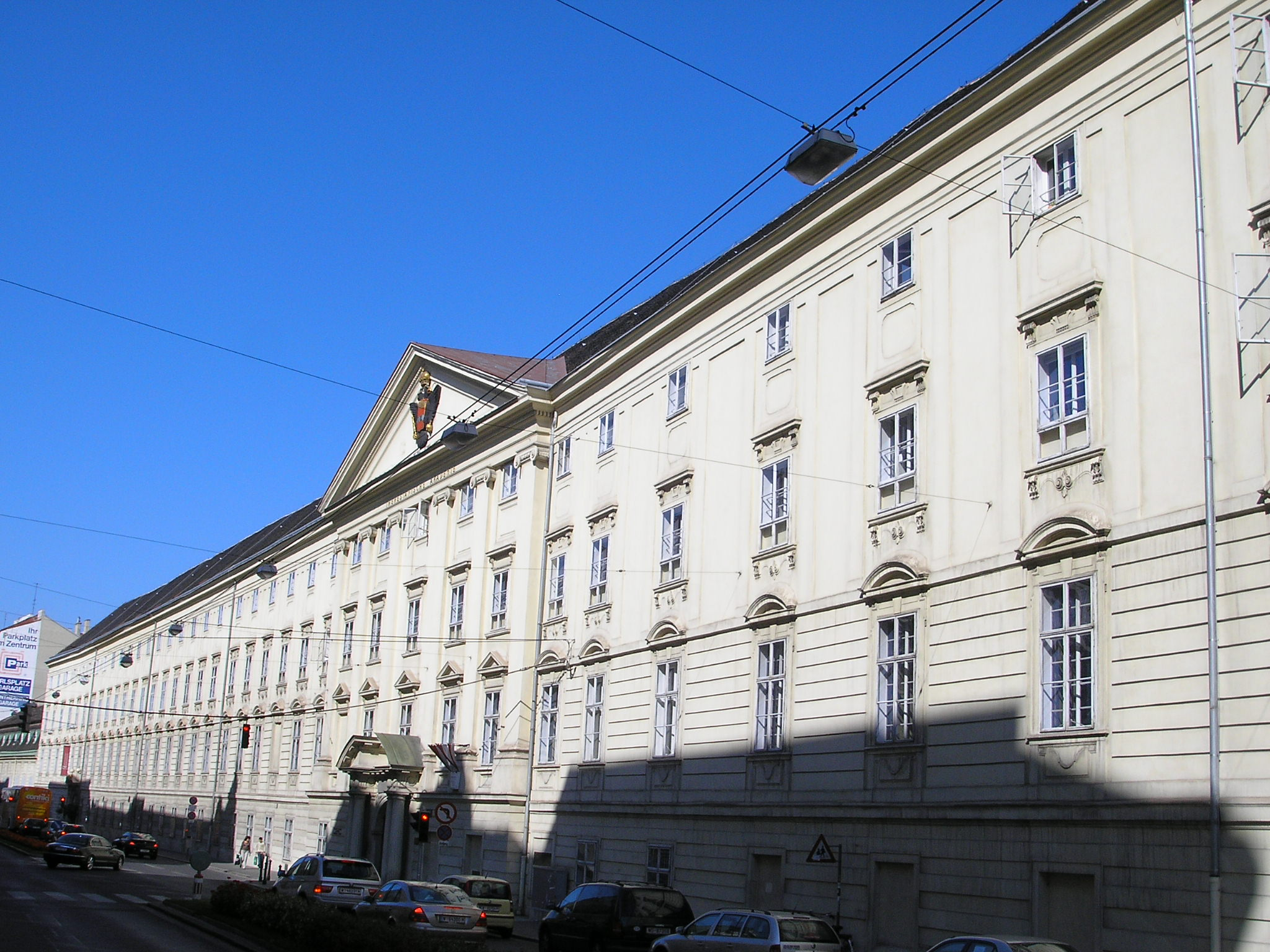 Image of the Alte Favorita palace, built for Empress Maria Theresia of Austria, today housing the elite Theresianum Gymnasium and the Diplomatic Academy of Vienna. Building is therefore sometimes also known generally as Theresianum.